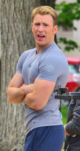 Set picture of Chris Evans filming Captain America: The Winter Soldier in Washington, D.C.